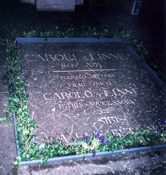 Grave of Carl von Linné specially decorated for his tri-centenaryPlace: Uppsala Cathedral, Sweden